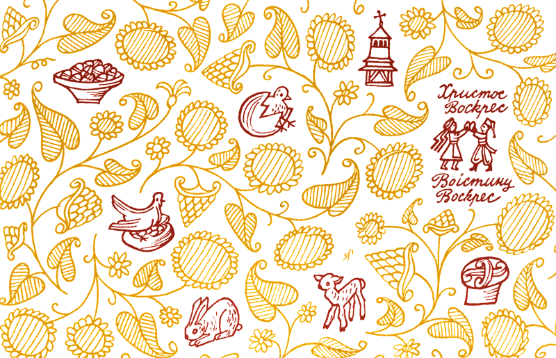 Jacques Hnizdovsky Easter Card